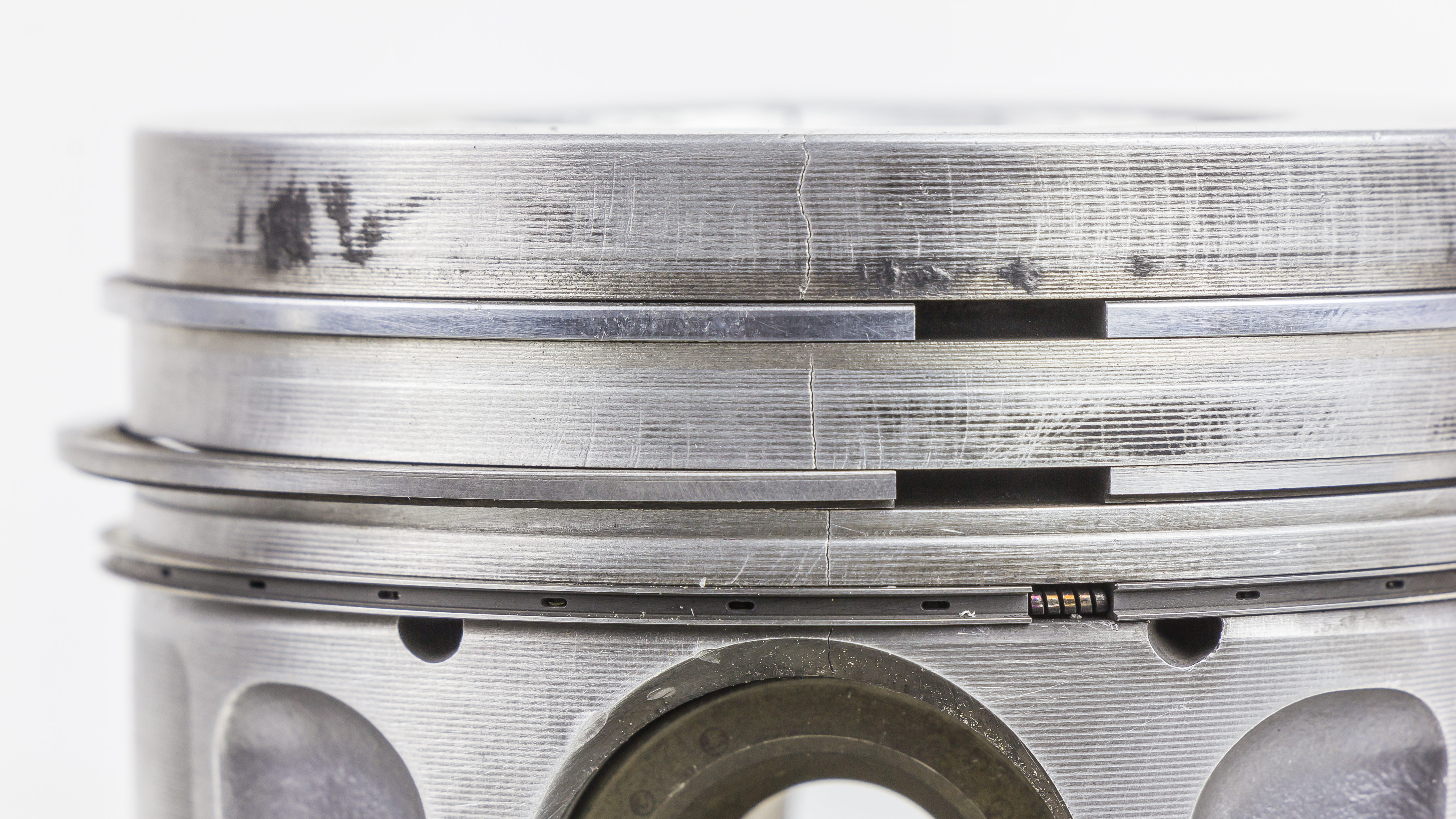 Nüral piston H268X, detail side view of piston rings (compression rings and oil scraper ring), showing a crack across the piston crown. Was used in the Diesel engine of a CITROËN JUMPER 2.2 HDi 120